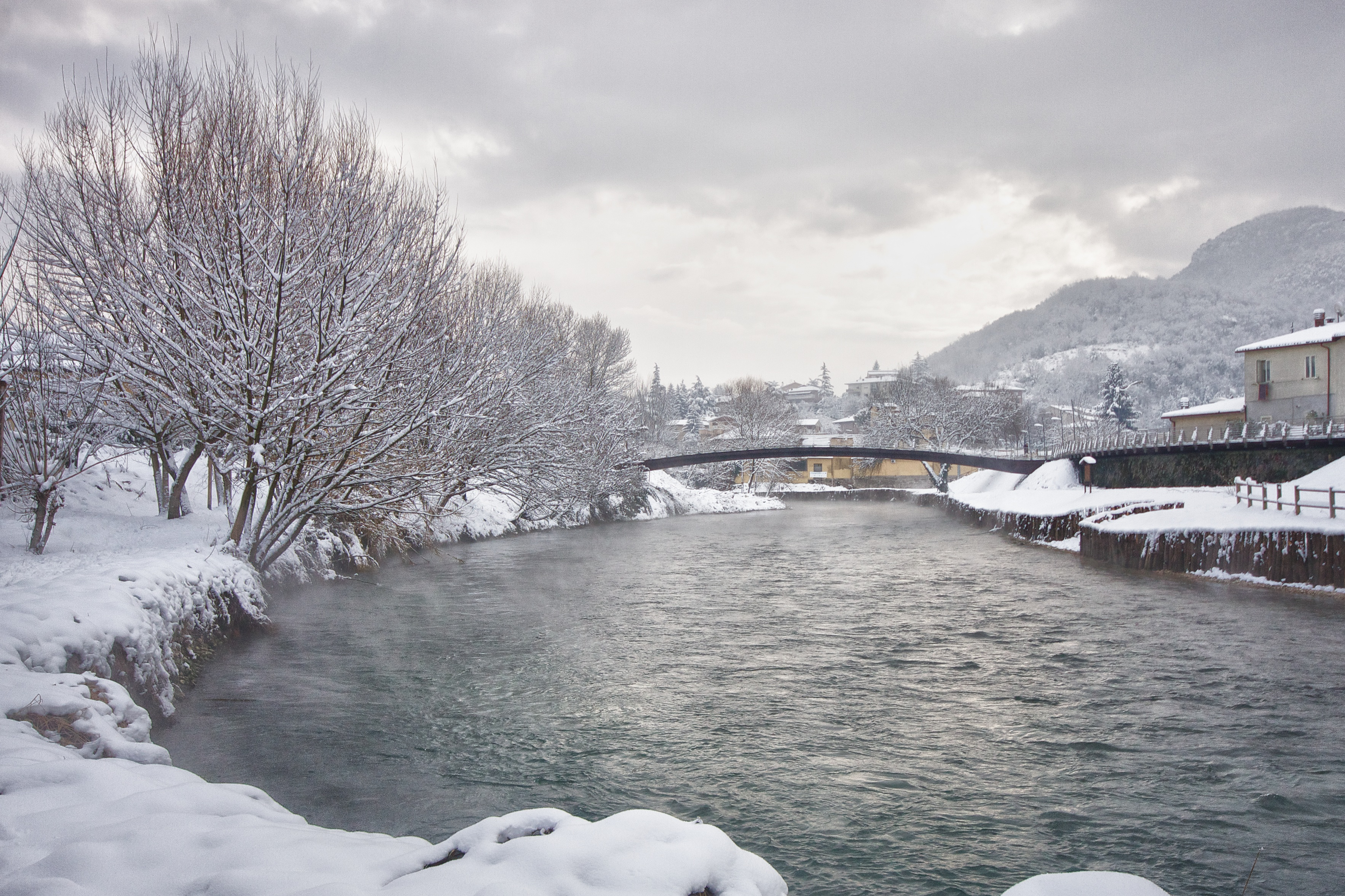 Velino River and pedestrian bridge between San Francesco square and Cavour square with snow, Rieti (Lazio, Italy)